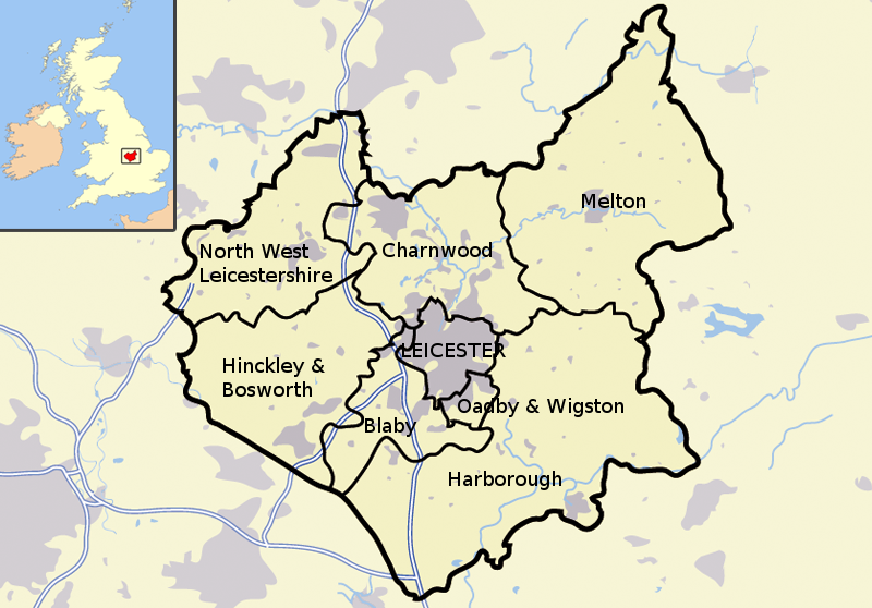 Map of Leicestershire with districts marked and labelled